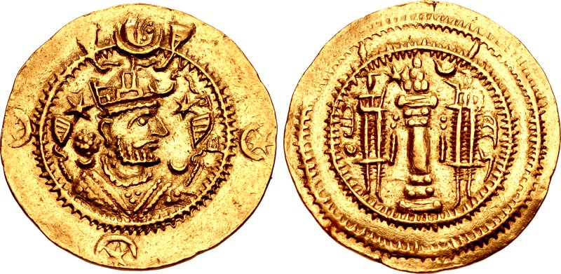 SASANIAN KINGS. Kavād (Kavādh) I. Second reign, AD 499-531. AV Dinar (22mm, 4.07 g, 3h). AYL (Susa?) mint. Dated RY 41 (AD 529/30). kw’d in Pahlavi to right, bust right, wearing mural crown with frontal crescent, two ribbons, and korymbos set on crescent, ribbons and crescents on shoulders; stars flanking head; star-in-crescents in margin / Fire altar with ribbons; flanked by two attendants; star and crescent flanking flames; y’č in Pahlavi (date) on left, ;6 ’yl in Pahlavi (mint) on right; double border. SNS type Ib-c/1b; SNS Schaaf –; SC Tehran –; cf. Göbl type II/2 (for type); Saeedi –; Sunrise – . EF, hint of weak strike in outer border of reverse. Unpublished and unique.